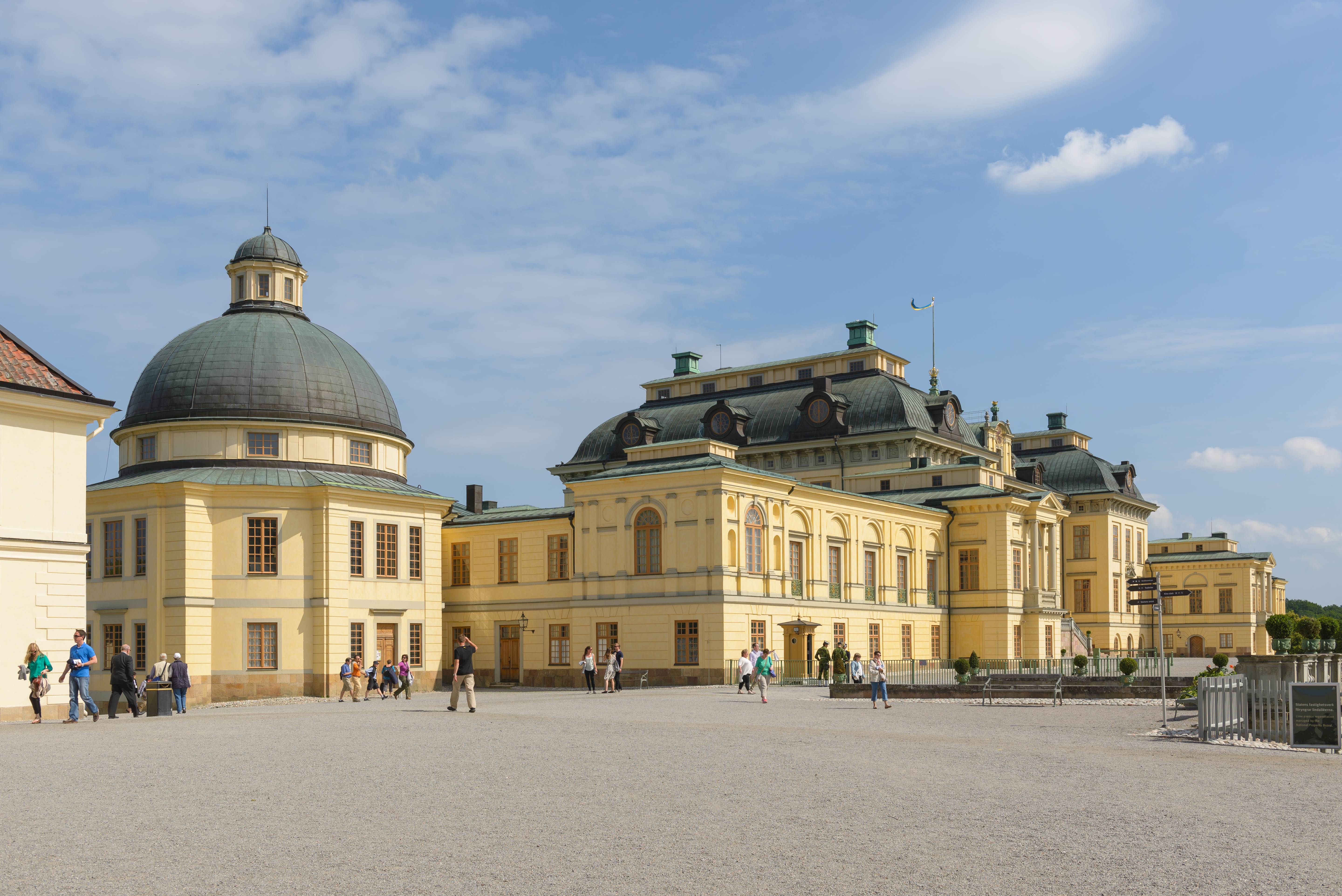 Drottningholm palace and palace church seen from Teaterplanen (the Theatre Square).